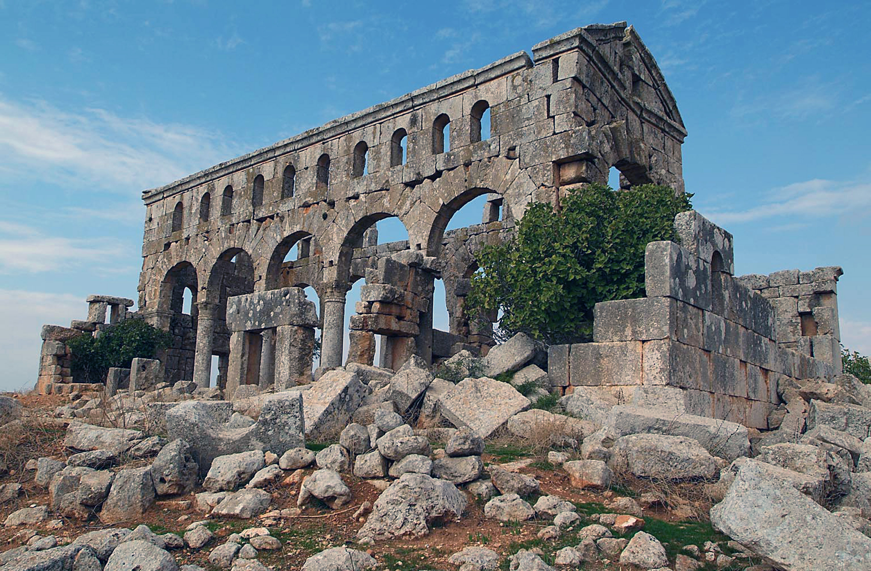 Kharab Shams ( Arabic خراب الشمس, DMG Ḫārab Sams) also Kharab al-Shams, Kharab Shems, was an early Byzantine settlement in the territory of the dead cities in northwestern Syria . In the ruins area is an unusually high basilica from the end of the 4th Century will, because of its columnar arcades called the "stilts church with.